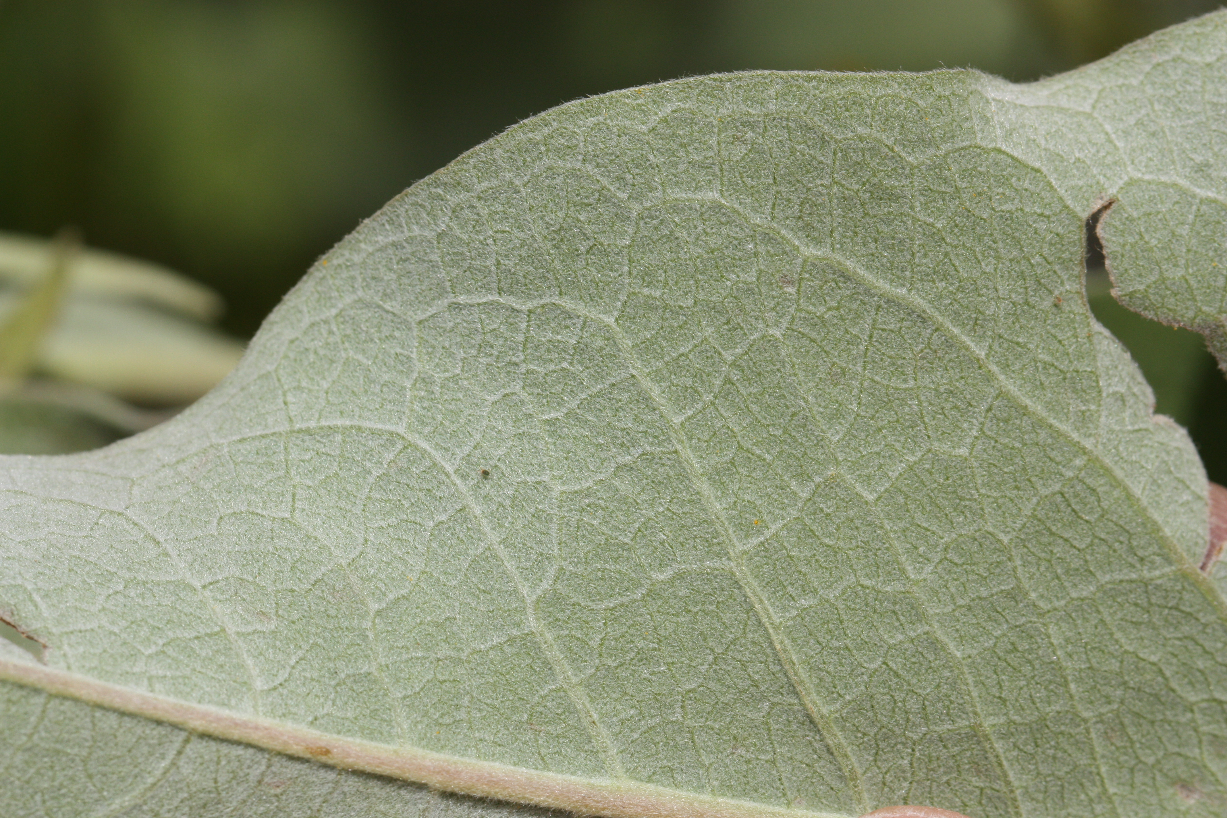 Arrowleaf Balsamroot Viewpoint location: Tronsen Ridge Trail #1204, Tronsen Ridge Viewpoint elevation: 1306 meter (4283 ft) Location source: Garmin GPSmap 60CSx Location Datum: WGS84